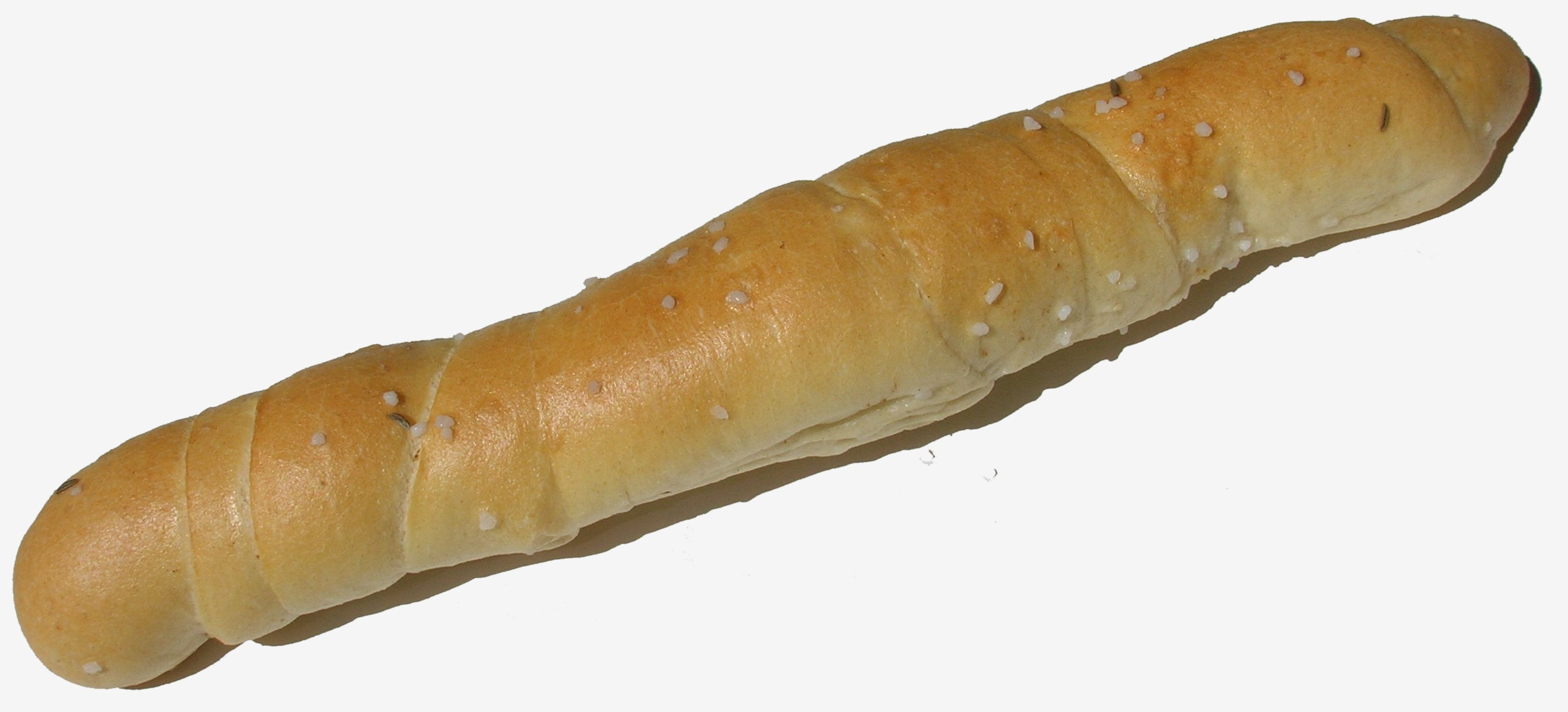 Salzstangerl, an Austrian type of bread roll